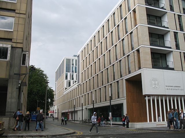 Informatics Forum. New university building on what was for many years (including both my times as a student here) a car park. A big improvement on most of the surrounding buildings such as the unspeakably ghastly (from the outside) Appleton Tower.